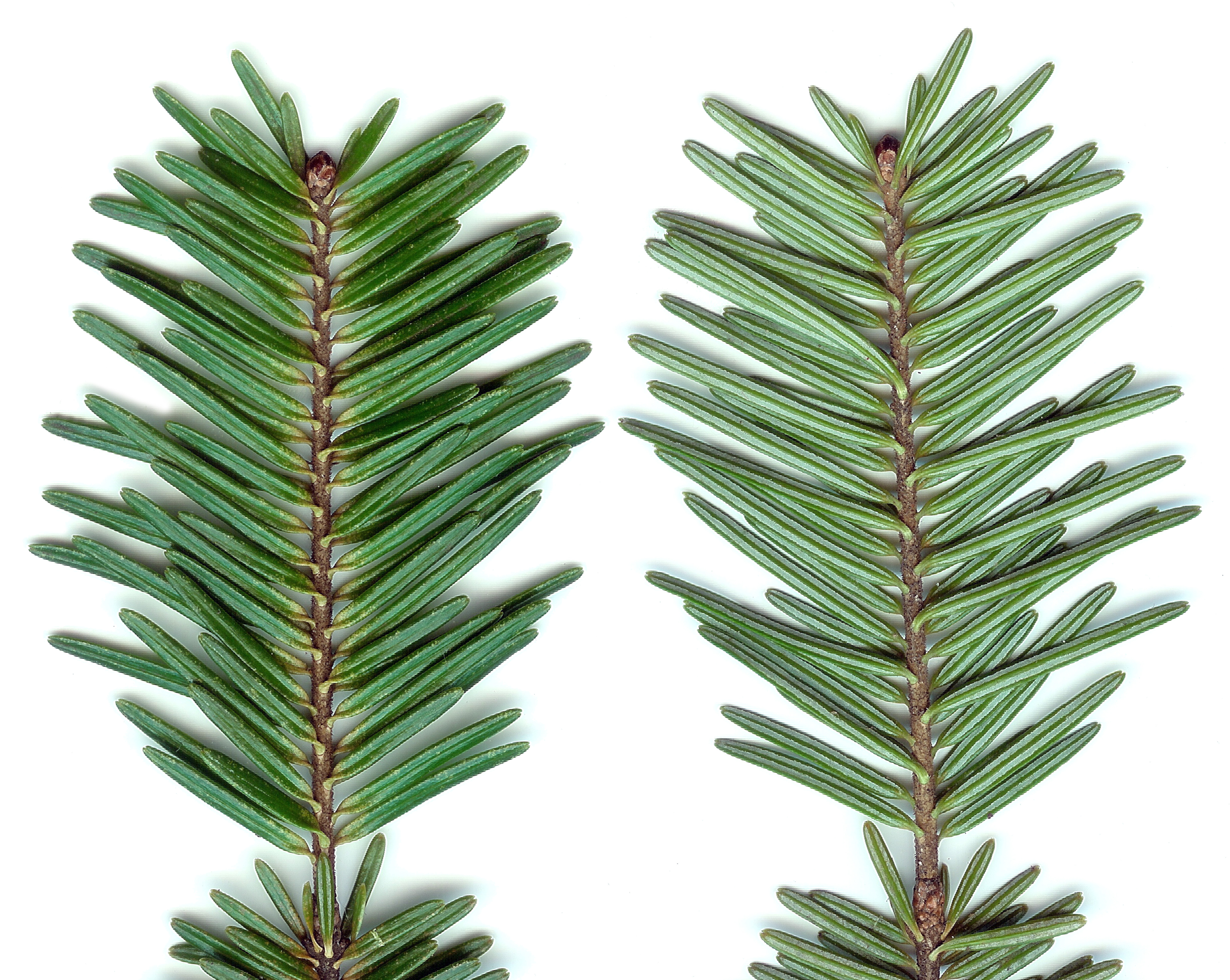 Adaxial and abaxial sides of silver fir shoot.